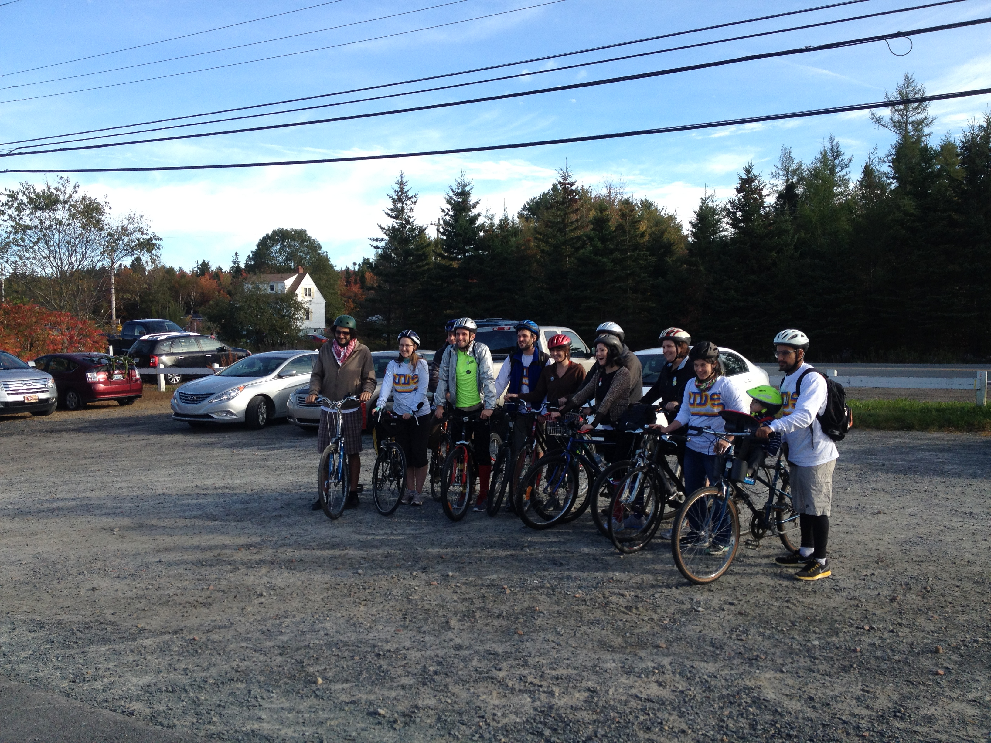 A group of Ride for Refuge participants in Halifax, Nova Scotia, Canada in 2013